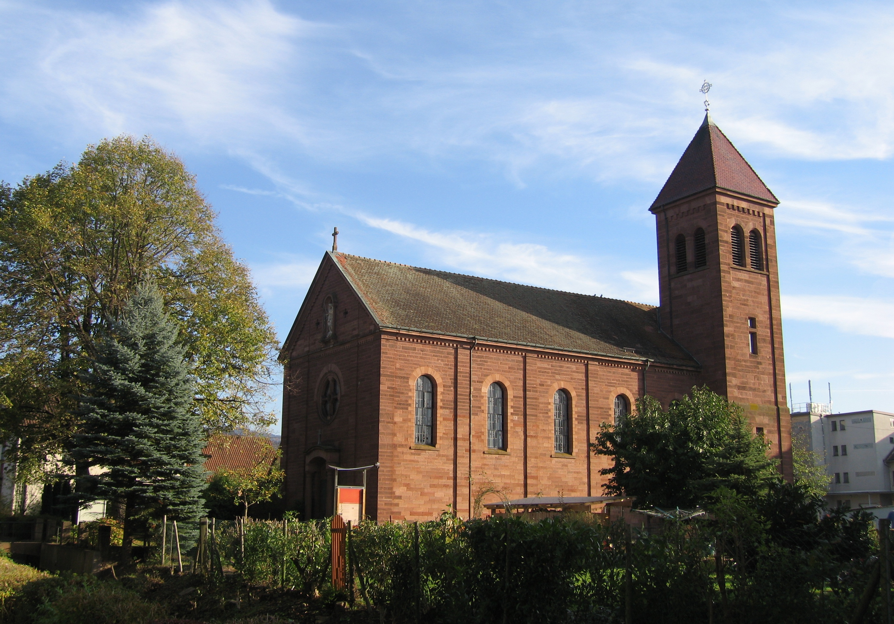 View on the St.Josefschurch in Denzlingen. The Church was build in the years 1912-1913.